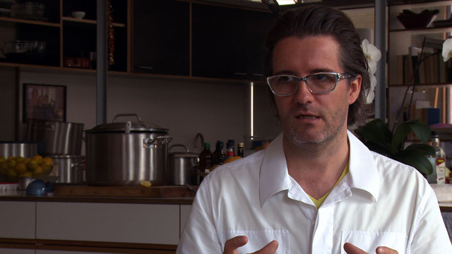 Danish-Icelandic artist Olafur Eliasson. Still image from the 2010 documentary "The Future of Art" by Erik Niedling and Ingo Niermann.